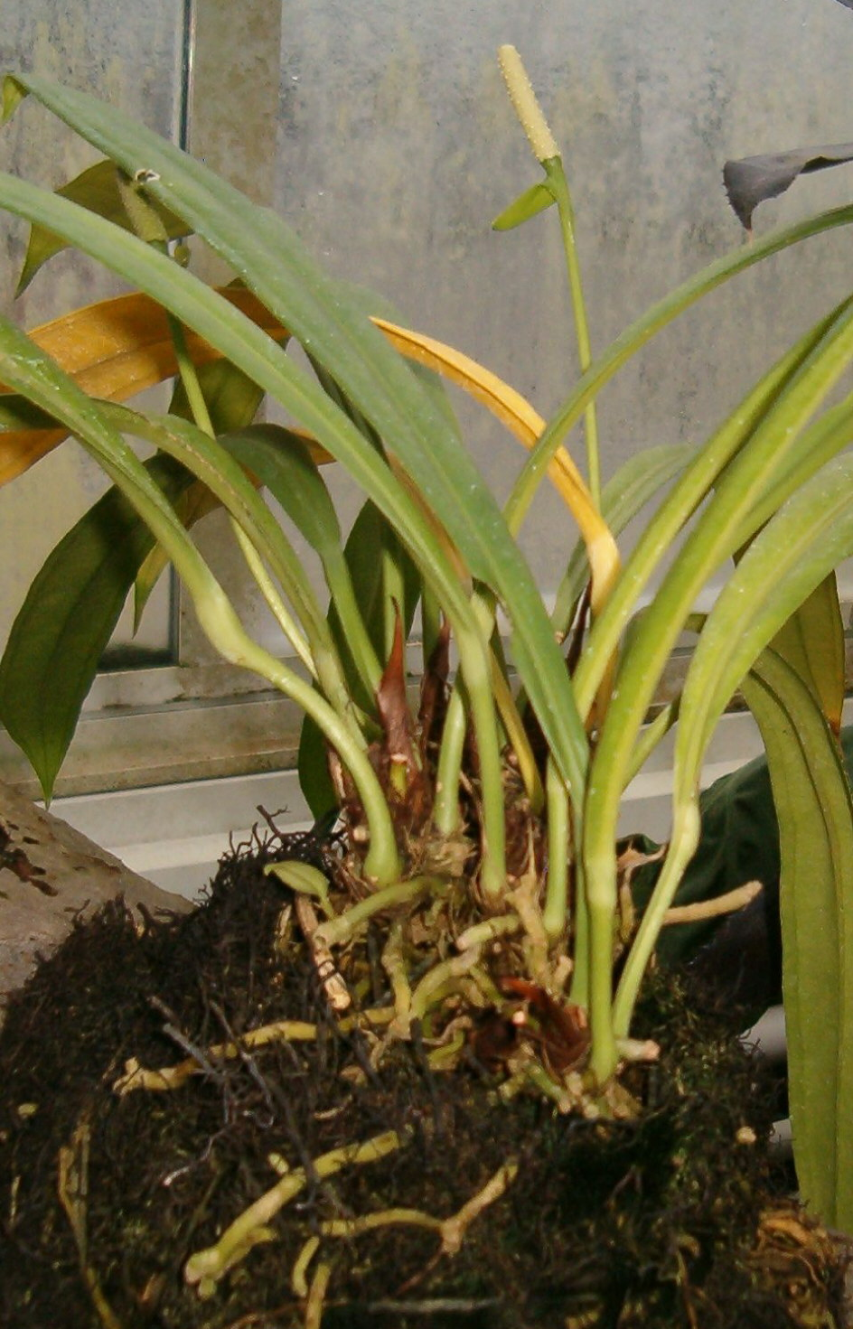 Location: Botanical Gardens Berlin Dahlem